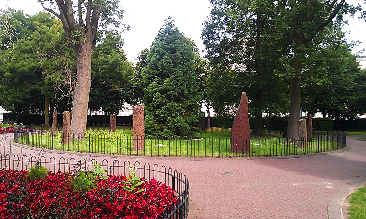 The Gorsedd Stones in Cathays Park, Cardiff